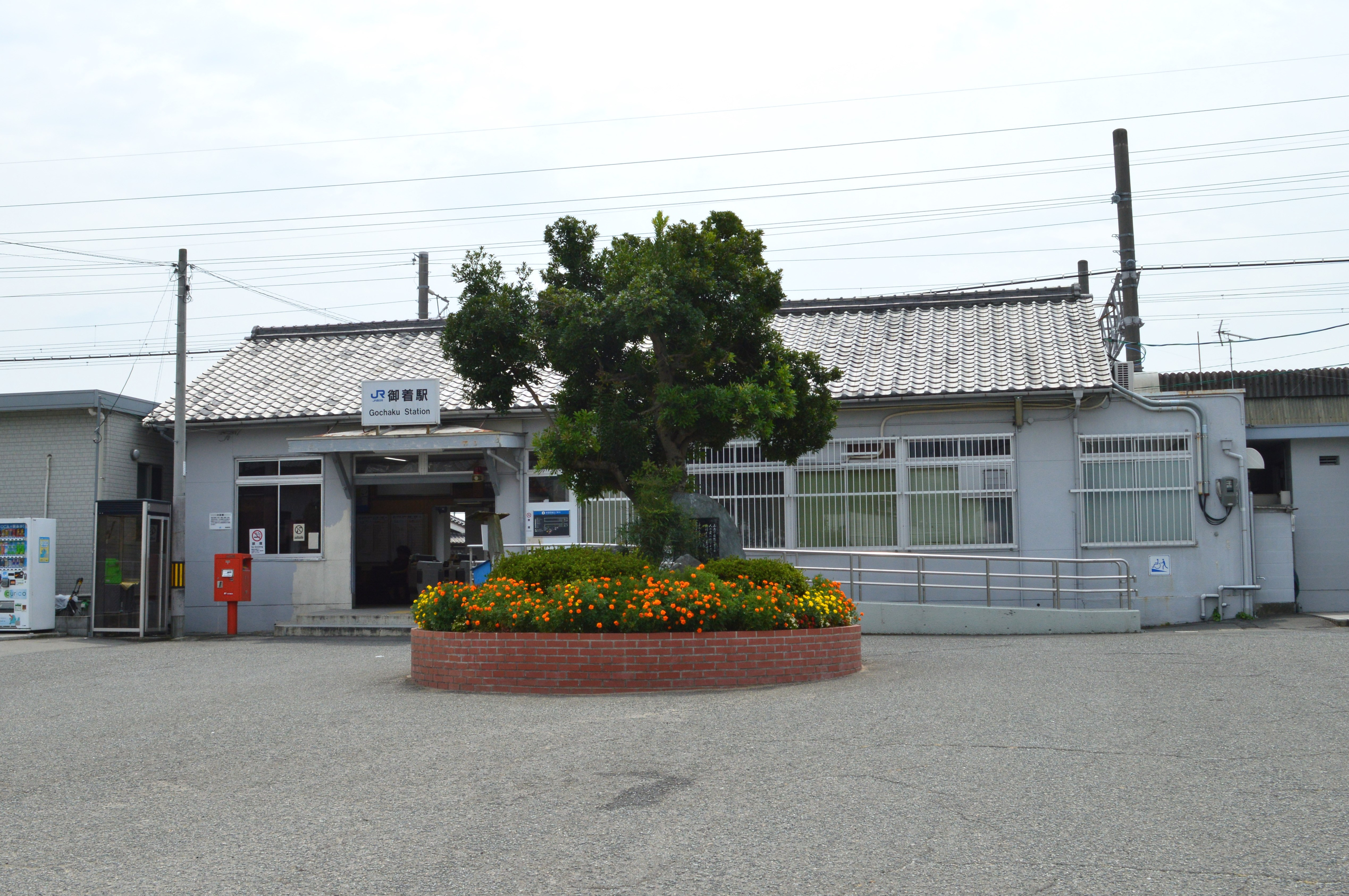 Gochaku Station